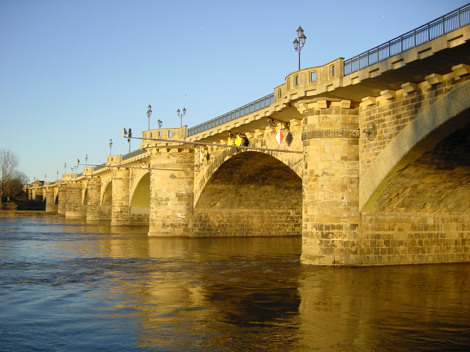 Town bridge in Pirna, Saxony, Germany